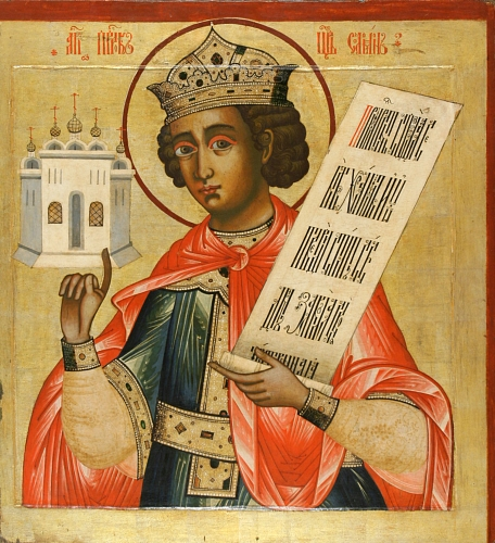 King Solomon, Russian icon from first quarter of 18th cen.